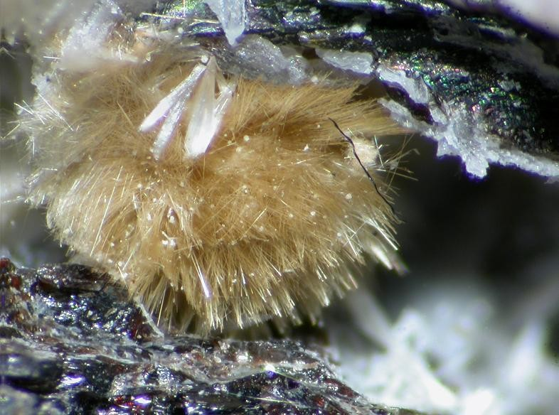 Raite, Zorite Locality: Yubileinaya (Yubileinoye; Jubilejnaja) pegmatite, Karnasurt Mt, Lovozero Massif, Kola Peninsula, Murmanskaja Oblast', Northern Region, Russia Golden-brown acicular Raite xls together with some white Zorite sprays. Field of view 4 mm. Specimen and photo Leon Hupperichs.